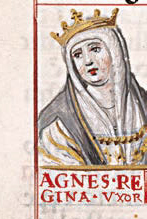 Miniature of Agnes, first wife of Alfonso VI of Leon and Castile